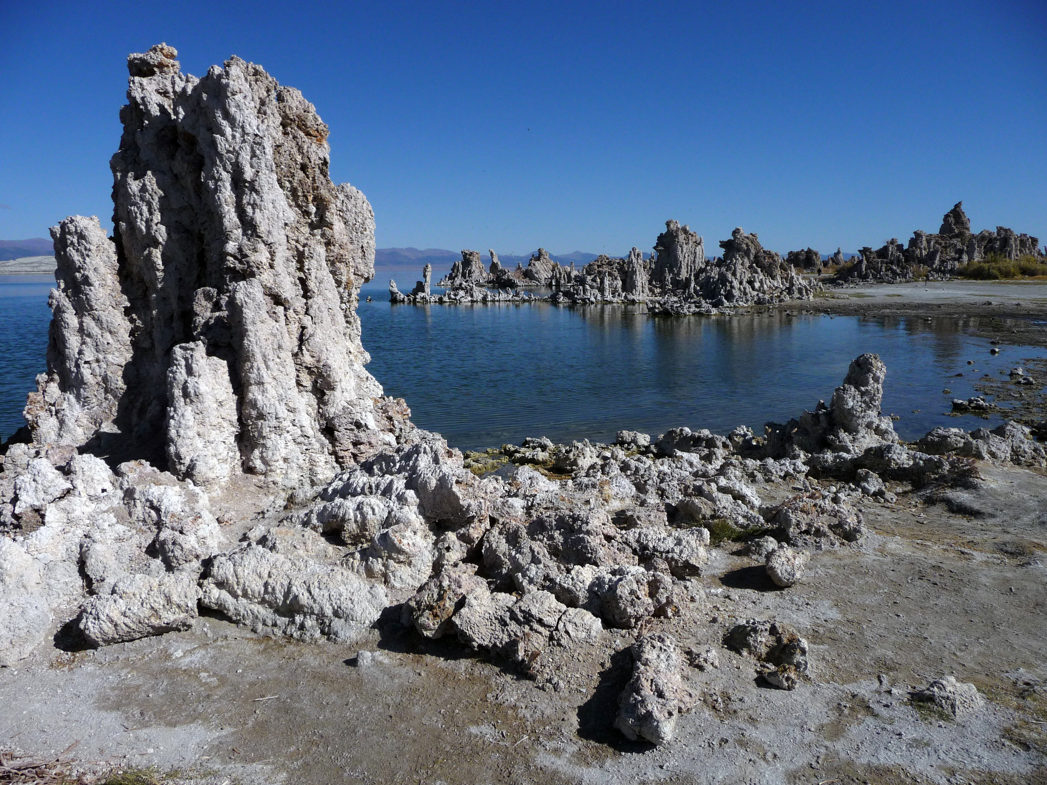 Tufa columns at the alkaline and hypersaline Mono Lake, eastern California. Photo taken in the Mono Lake Tufa State Natural Reserve, Mono County, Eastern Sierra region.